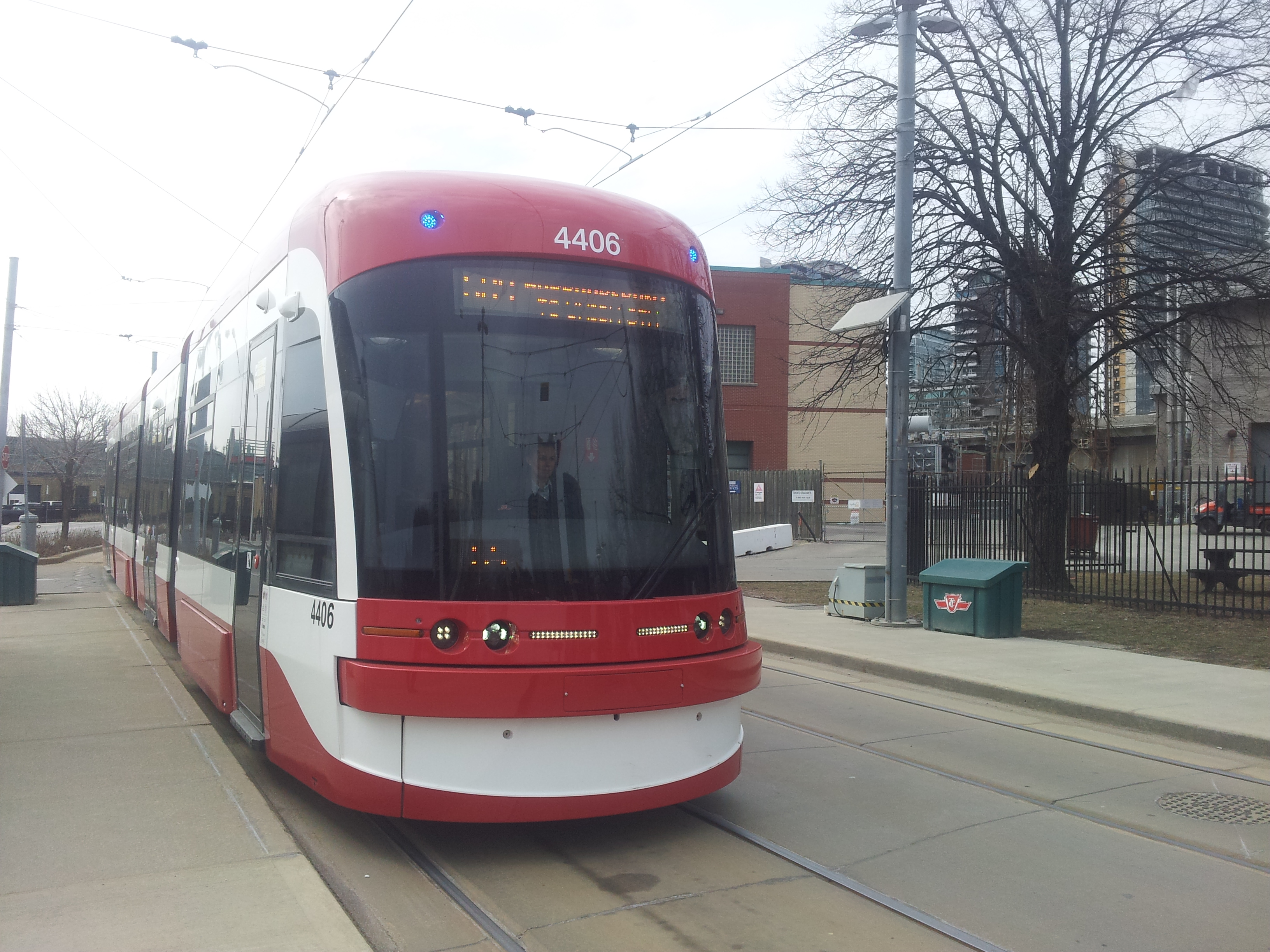 This is #4406, a Bombardier Flexity Outlook TTC streetcar built in 2012-2019 servicing the 509 Harbourfront line at the Exhibition loop.